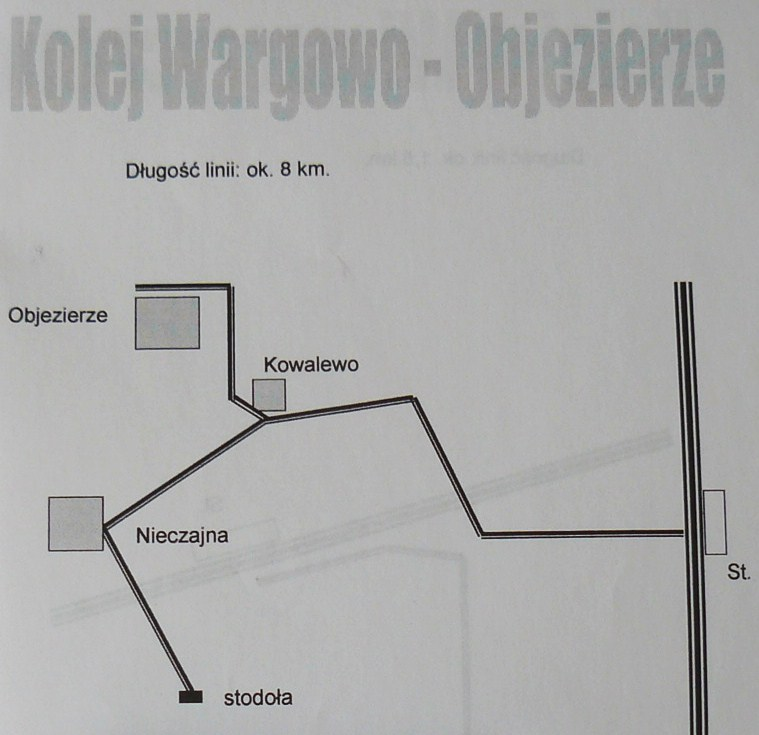 Rural-train from Wargowo to Objezierze, Poland.